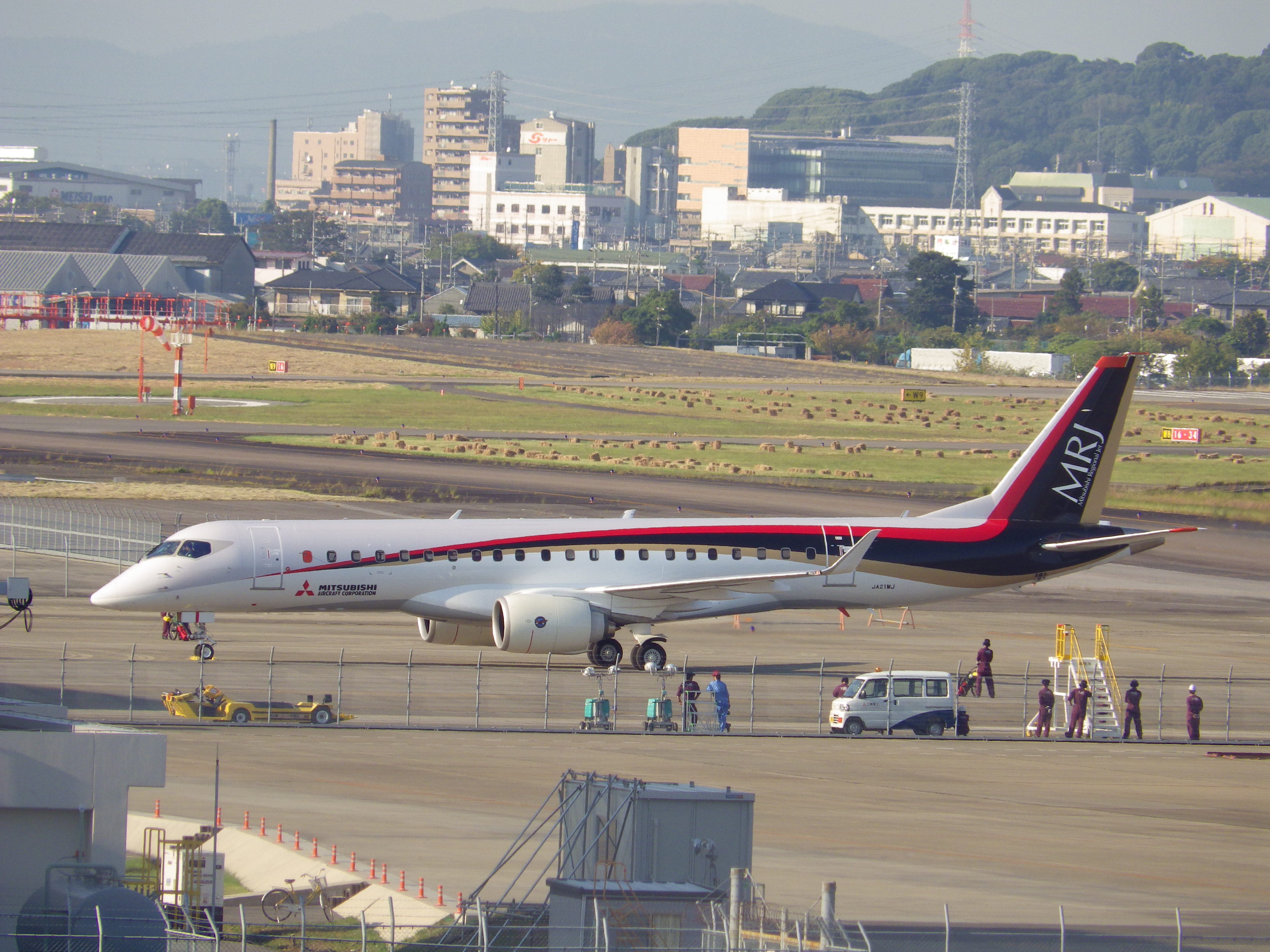 LEFT SIDE PHOTO OF MITSUBISHI REGIONAL JET AT NAGOYA AIR PORT.